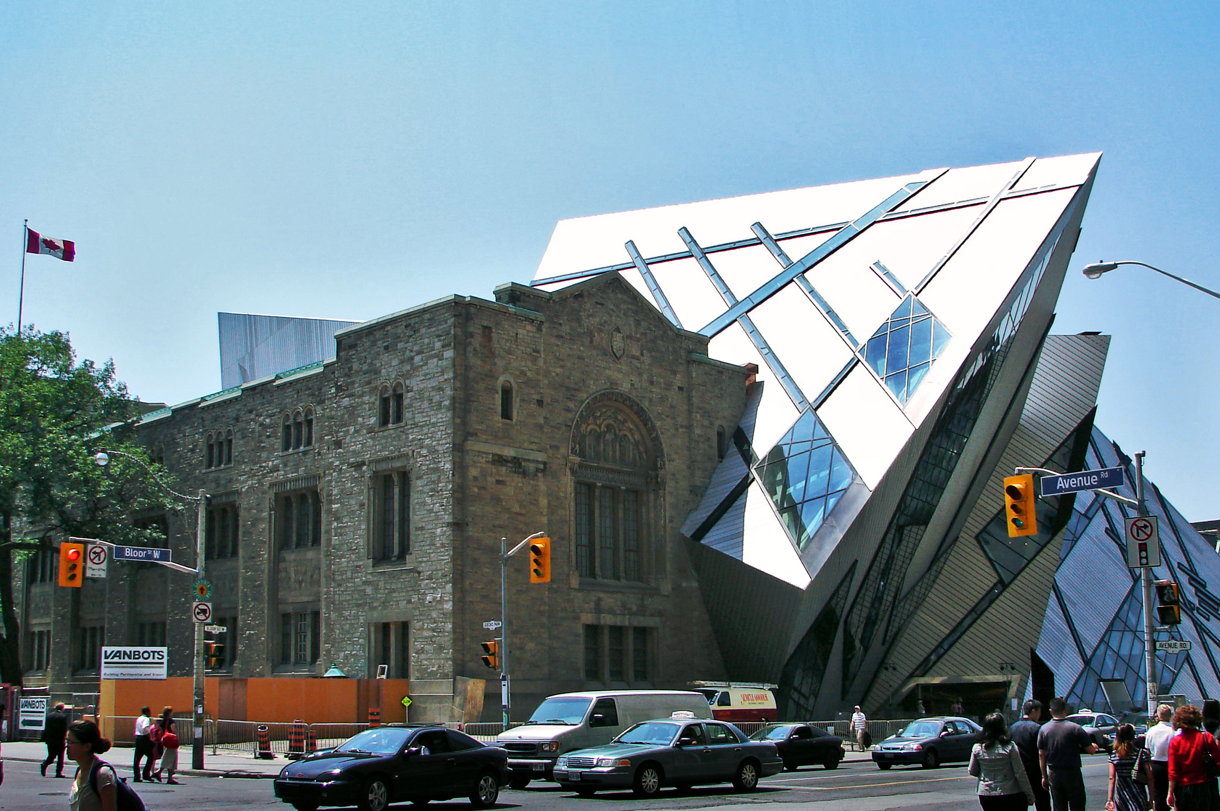 Depicted place: Royal Ontario Museum